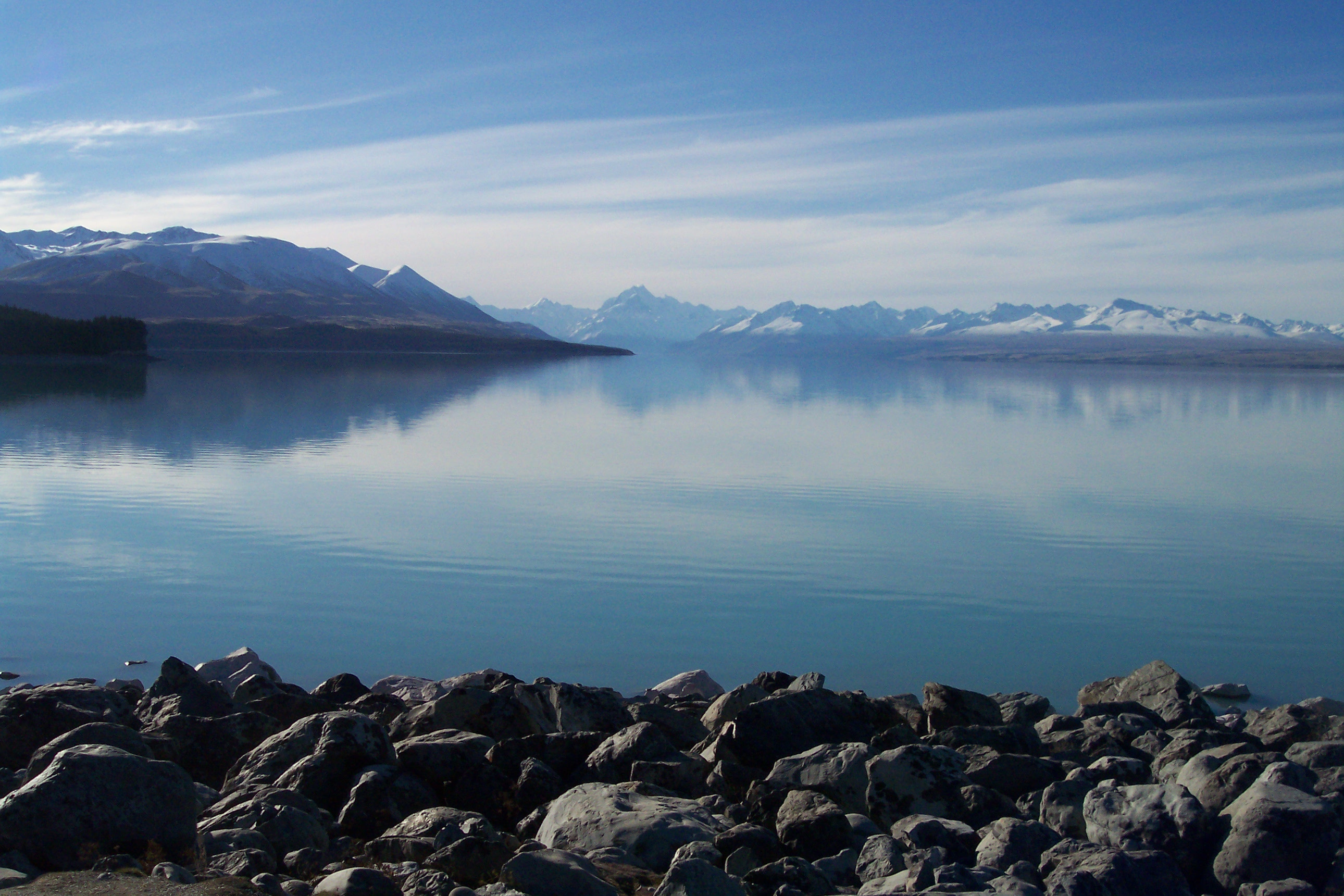 Mount Cook from the southern shore of Lake Pukaki.